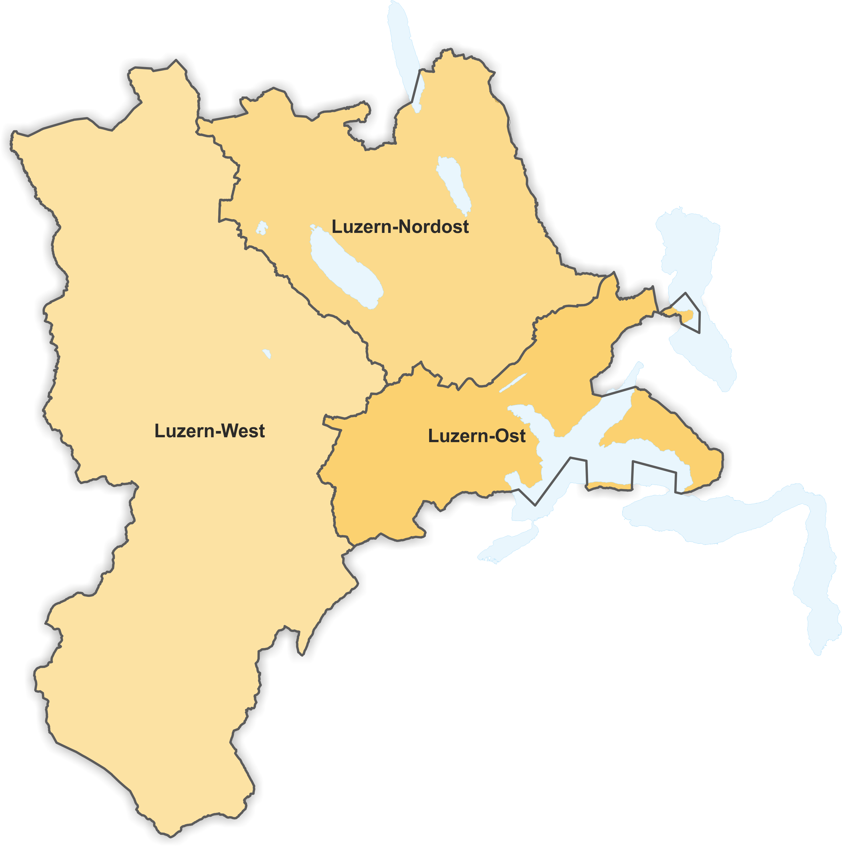 National council constituencies in the canton of Lucerne from 1890 to 1899